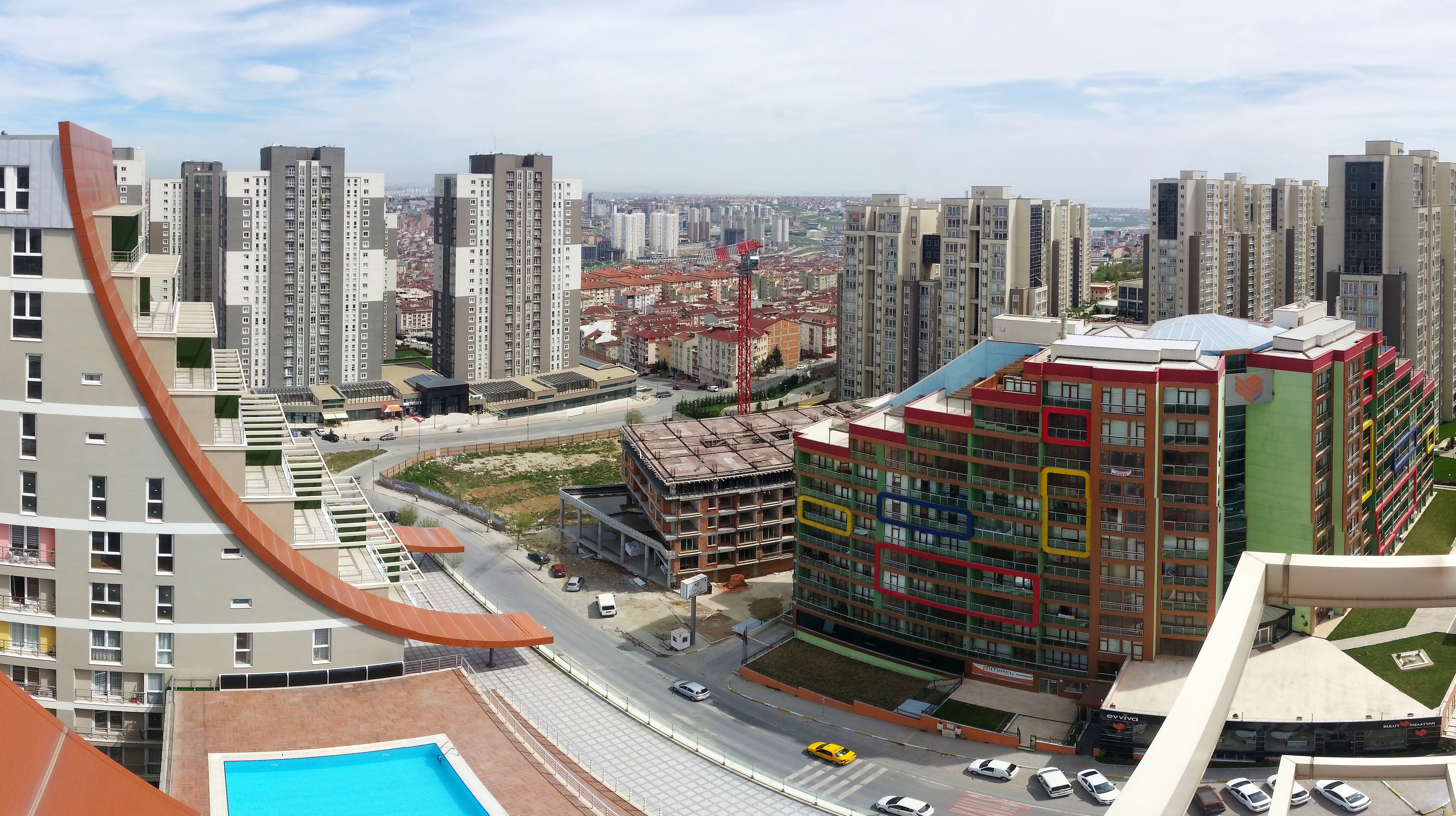 Beylikduzu district of Istanbul. Beylikduzu Skyline. Full Panorama.